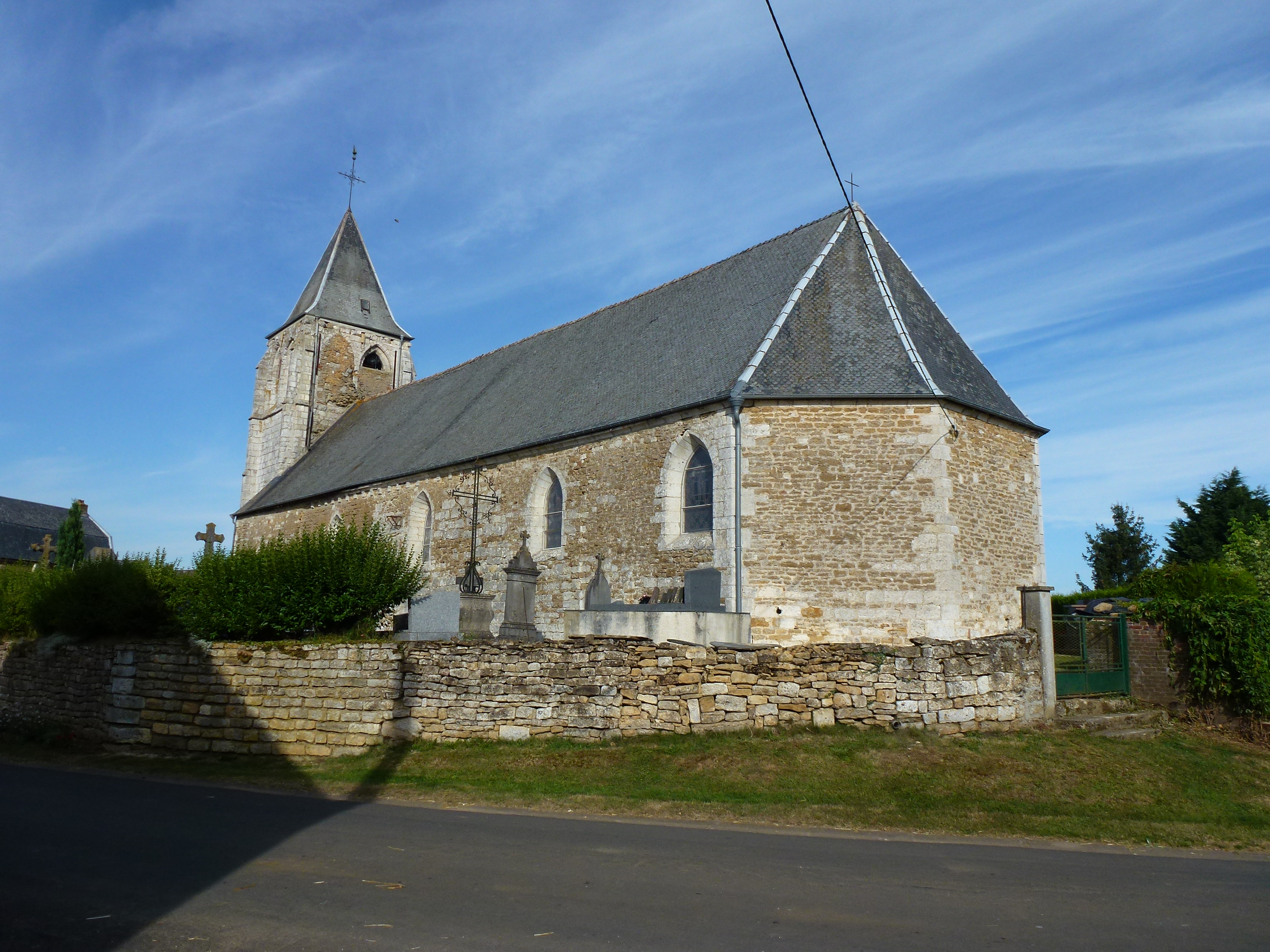 Antheny (Ardennes) Église Saint-Remy, chevet